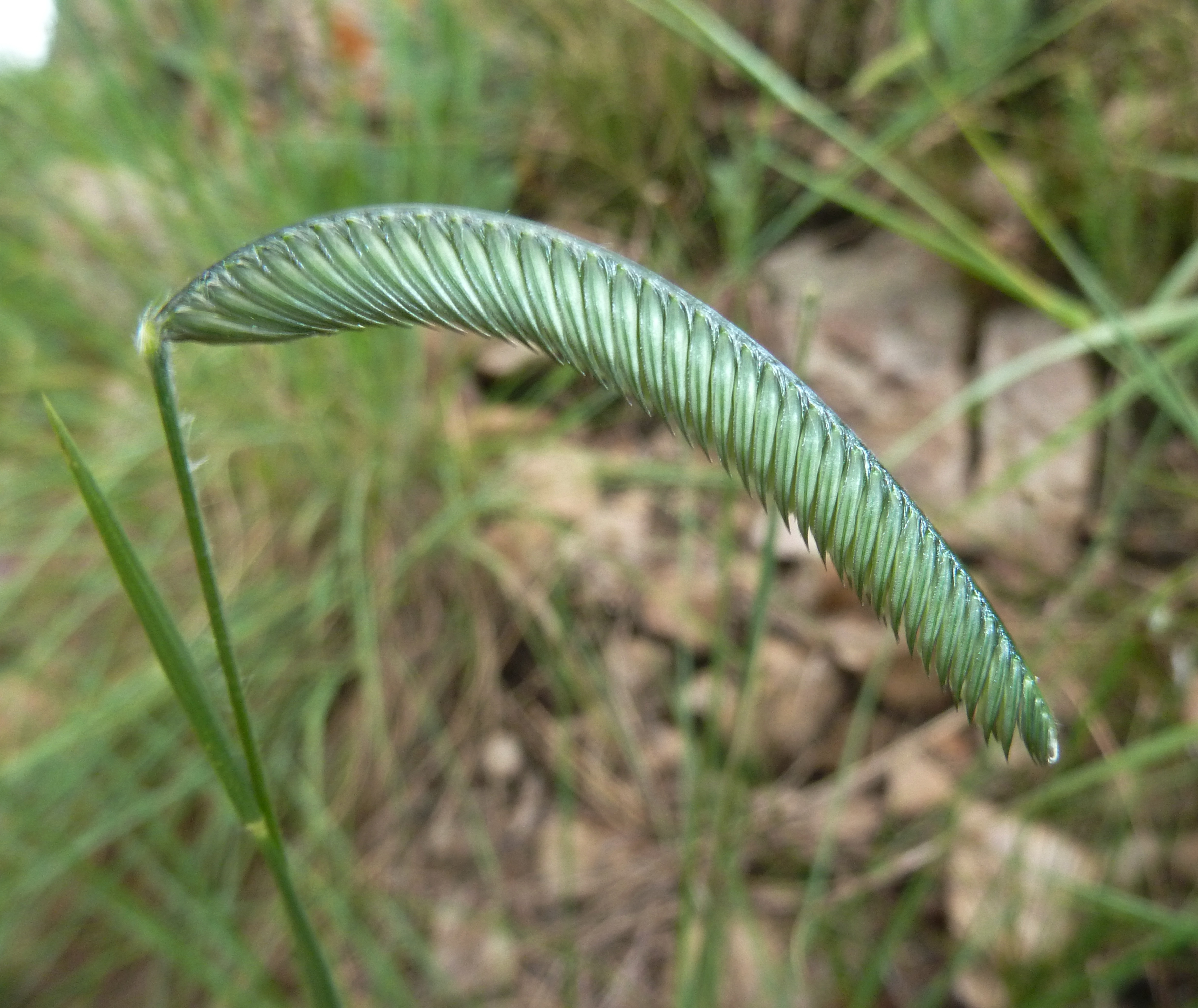 Inflorescence of Caterpillar grass (Harpochloa falx) growing at Dewetsnek, near Skeerpoort, Magaliesberg